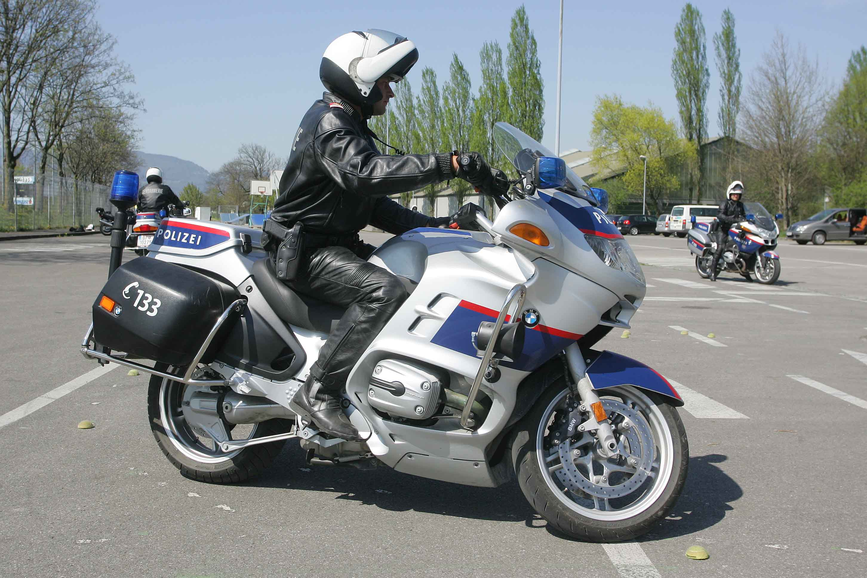 Austrian police motorcyclists at an exercise.